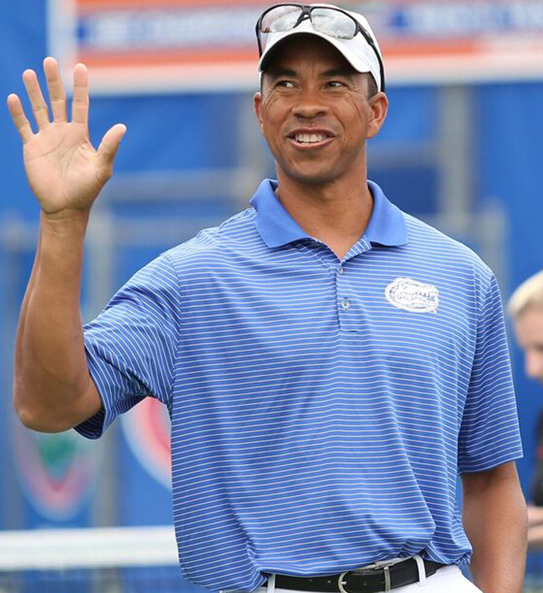 Florida Men's Tennis Head Coach Bryan Shelton